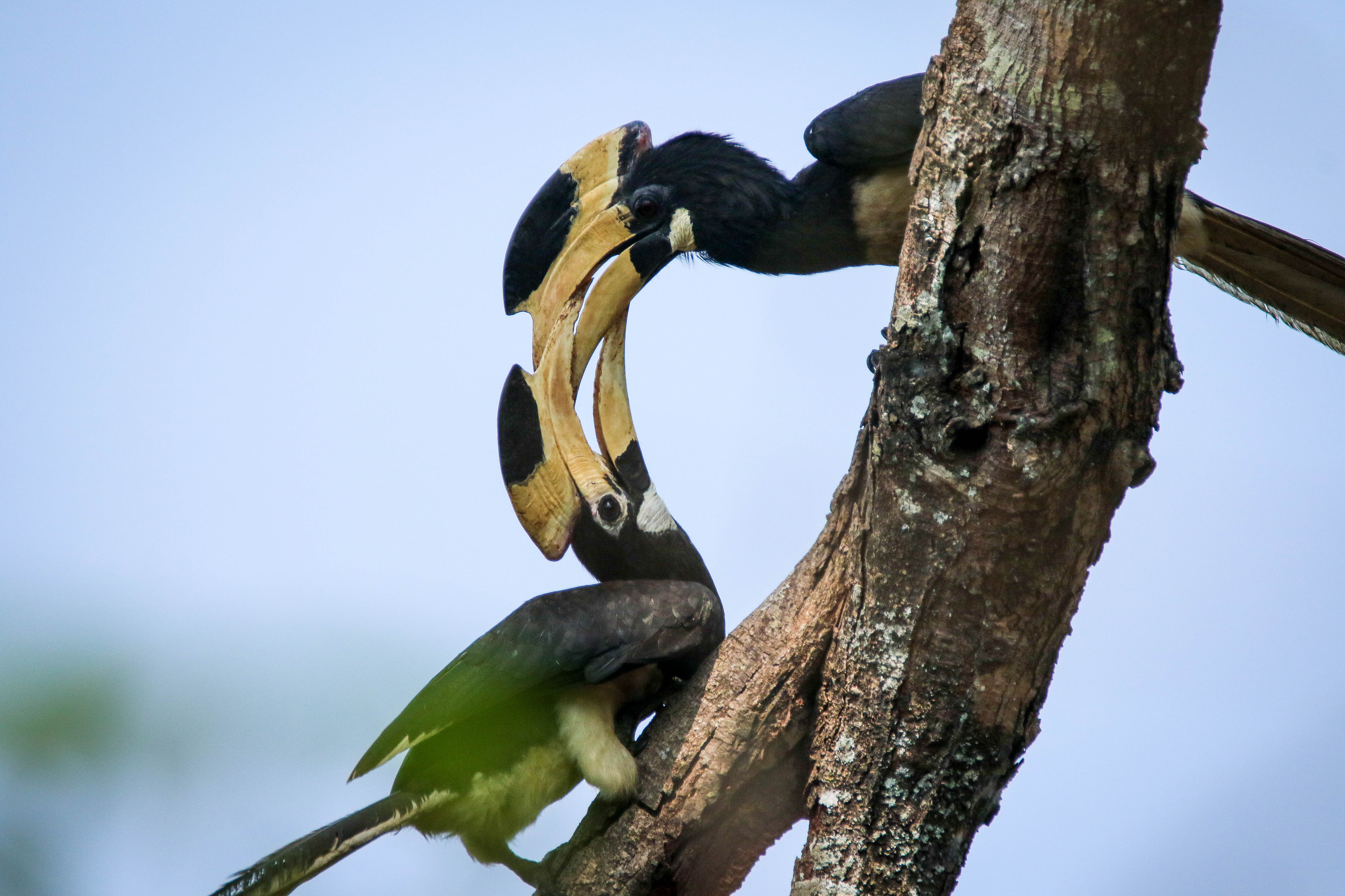 A new study throws light on how dwindling numbers of a particular tree could spell doom for the hornbills. Hornbills are mostly found in Uttara Kannada district. Silver oak trees, essential for the raising of hornbill chicks, are becoming rare in the forests of Dandeli. The Kali Tiger Reserve (KTR) once had large numbers of oak trees, but in recent years, timbering and poor replanting have brought down their numbers. But there is a hope. The foresters in Dandeli have taken up a massive tree planting drive this monsoon. Expert tree transplanters from Mandya and Ramanagaram are working on the planting. “All the anti-poaching camps will have ficus and other trees which help birds survive. We are also working with private property owners and encouraging them to take up tree planting. Sightings suggest the number of hornbills has increased. We have regular sightings of great pied hornbills in the Dandeli forests.